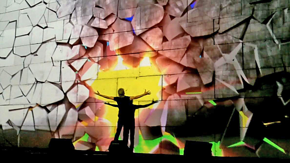 I took this photo with my Kodak playsport 5mp camera from the 2nd row, stage left, in Kansas City during the climax of the second guitar solo to "Comfortably Numb".